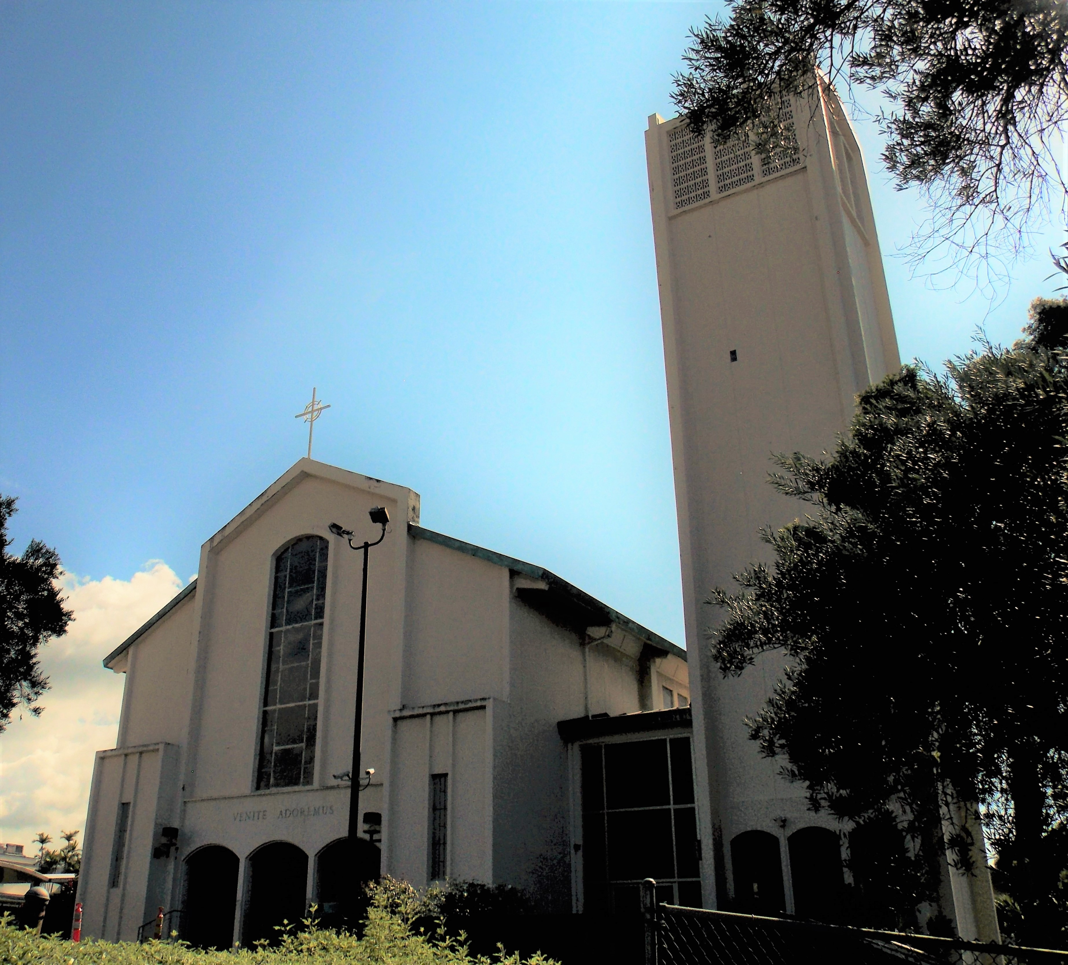 Co-Cathedral of Saint Theresa of the Child Jesus in Honolulu, Hawaii.